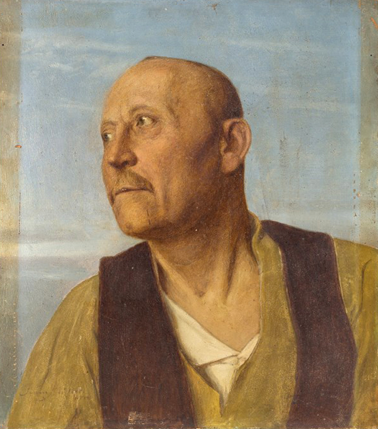 A Farmer’s Portrait, 1900; painter Franz Müller (1843-1929) - Düsseldorf history and portrait painter